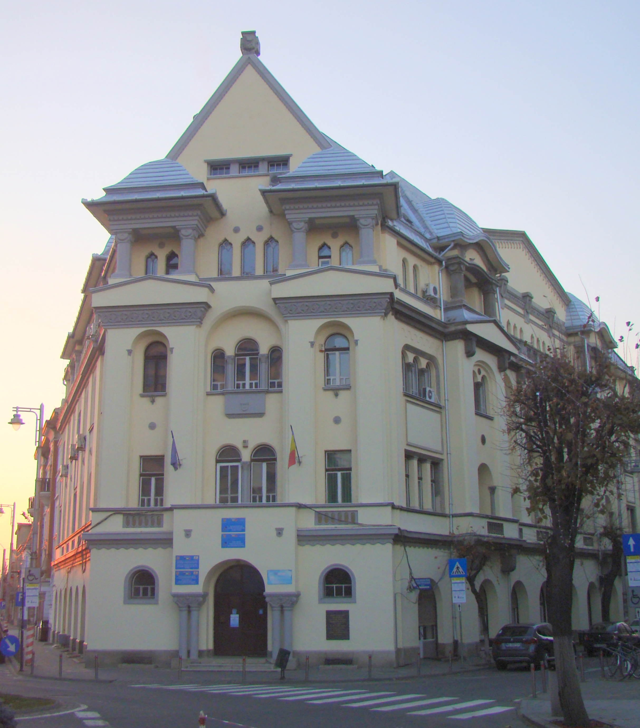 House, historic monument, in Târgu Mureș, Iuliu Maniu street 2